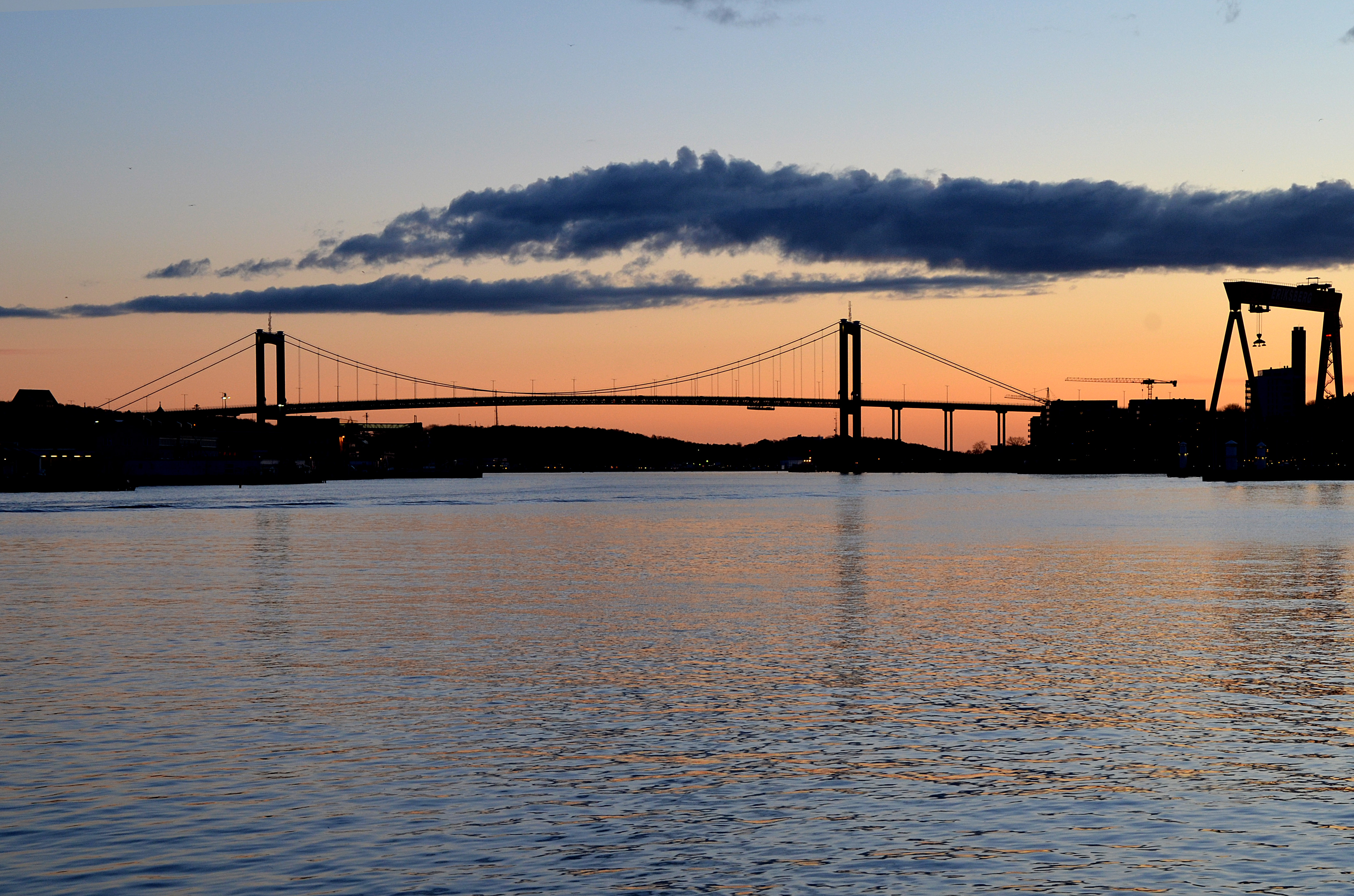 Älvsborgsbron from Eriksberg